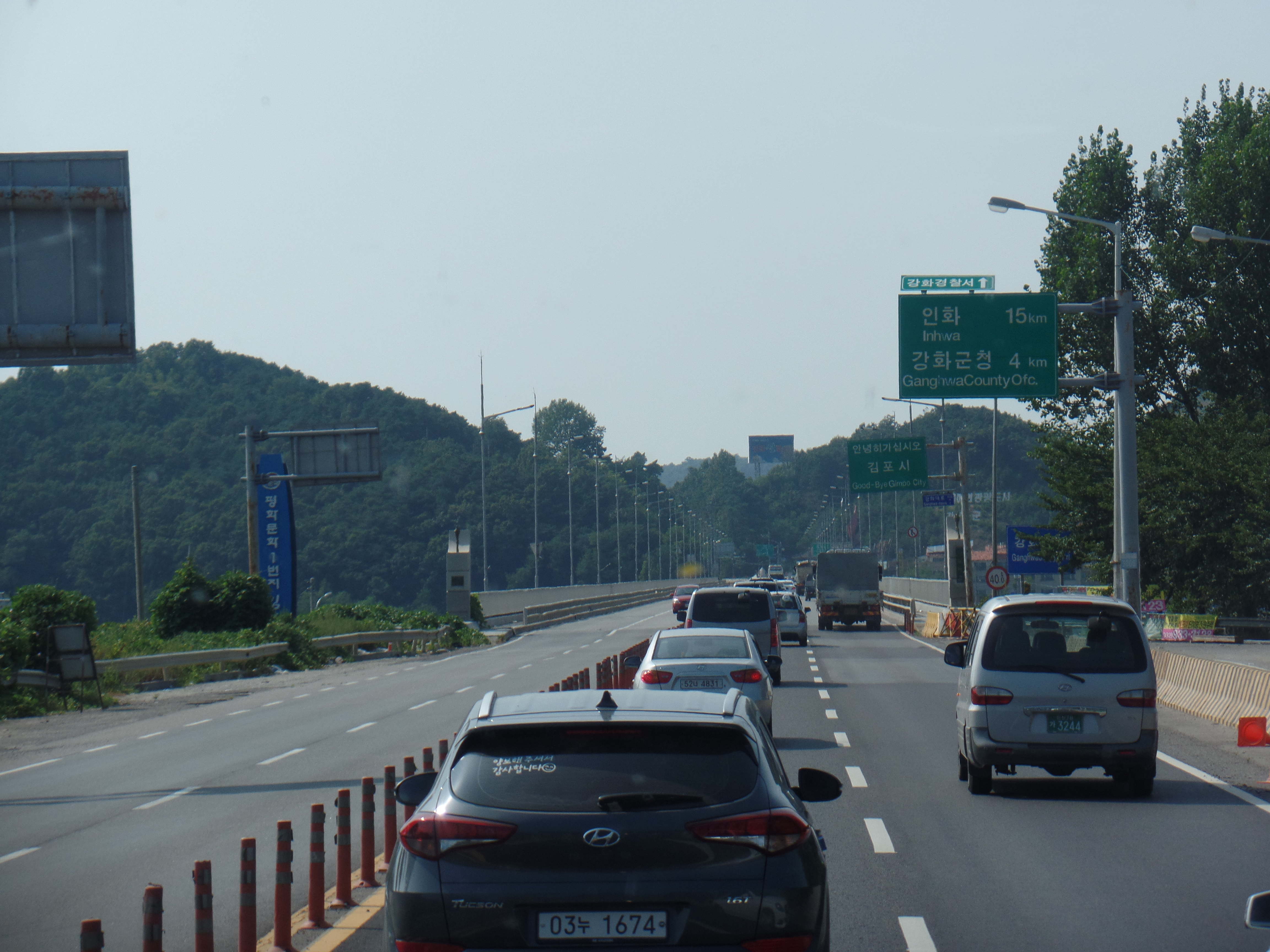 Gimpo, Gyeonggi-Ganghwa, Incheon Border sign in Republic of Korea National Route 48 Ganghwadaegyo Bridge(Westward Direction)